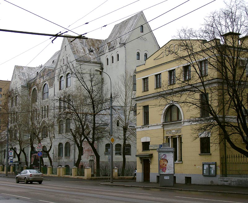 Devichye Pole, Moscow, Medical Campus and City School, built in 1911.